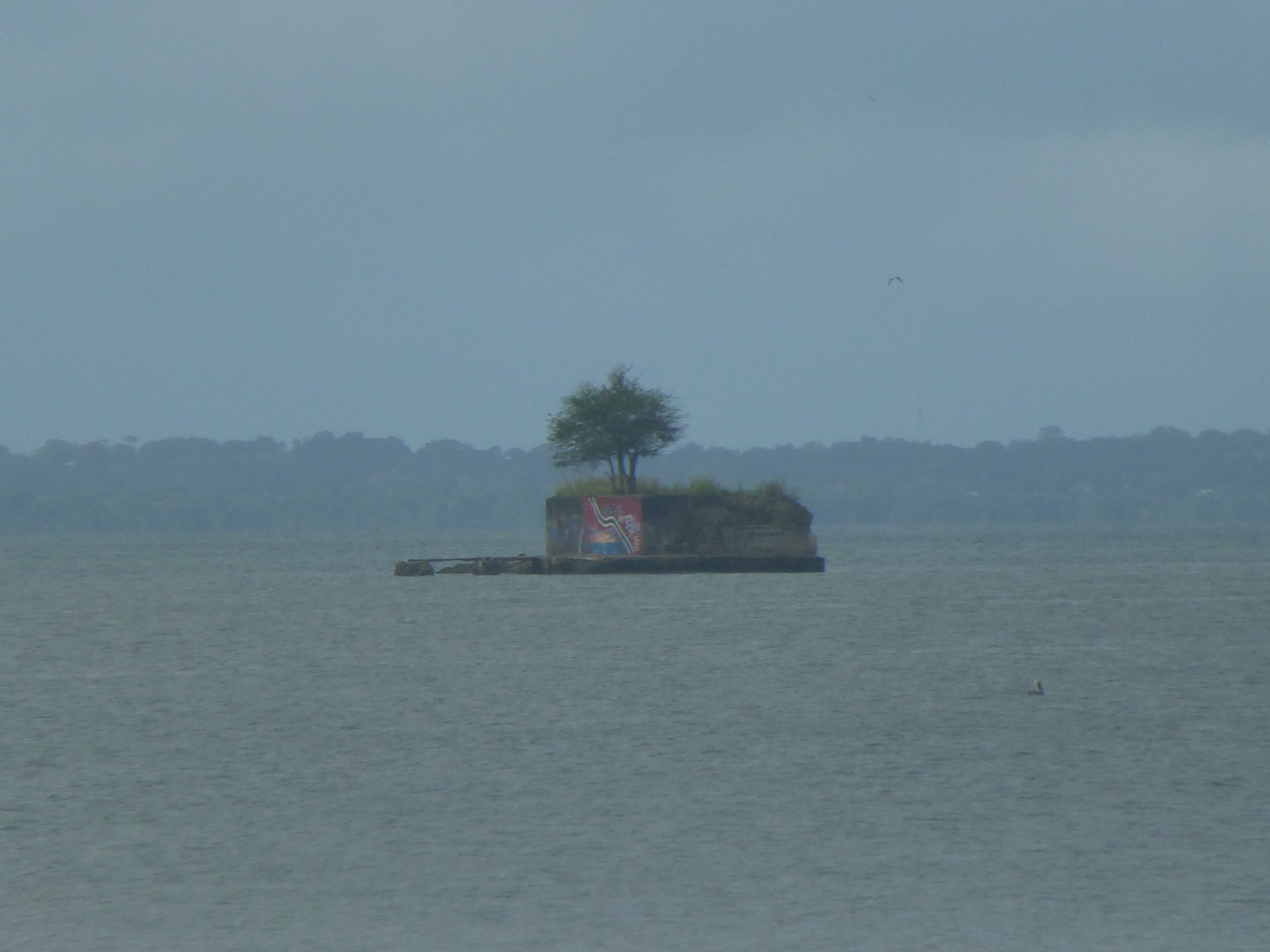 Farallon Rock (also spelled Faralon Rock), San Fernando, Trinidad and Tobago.